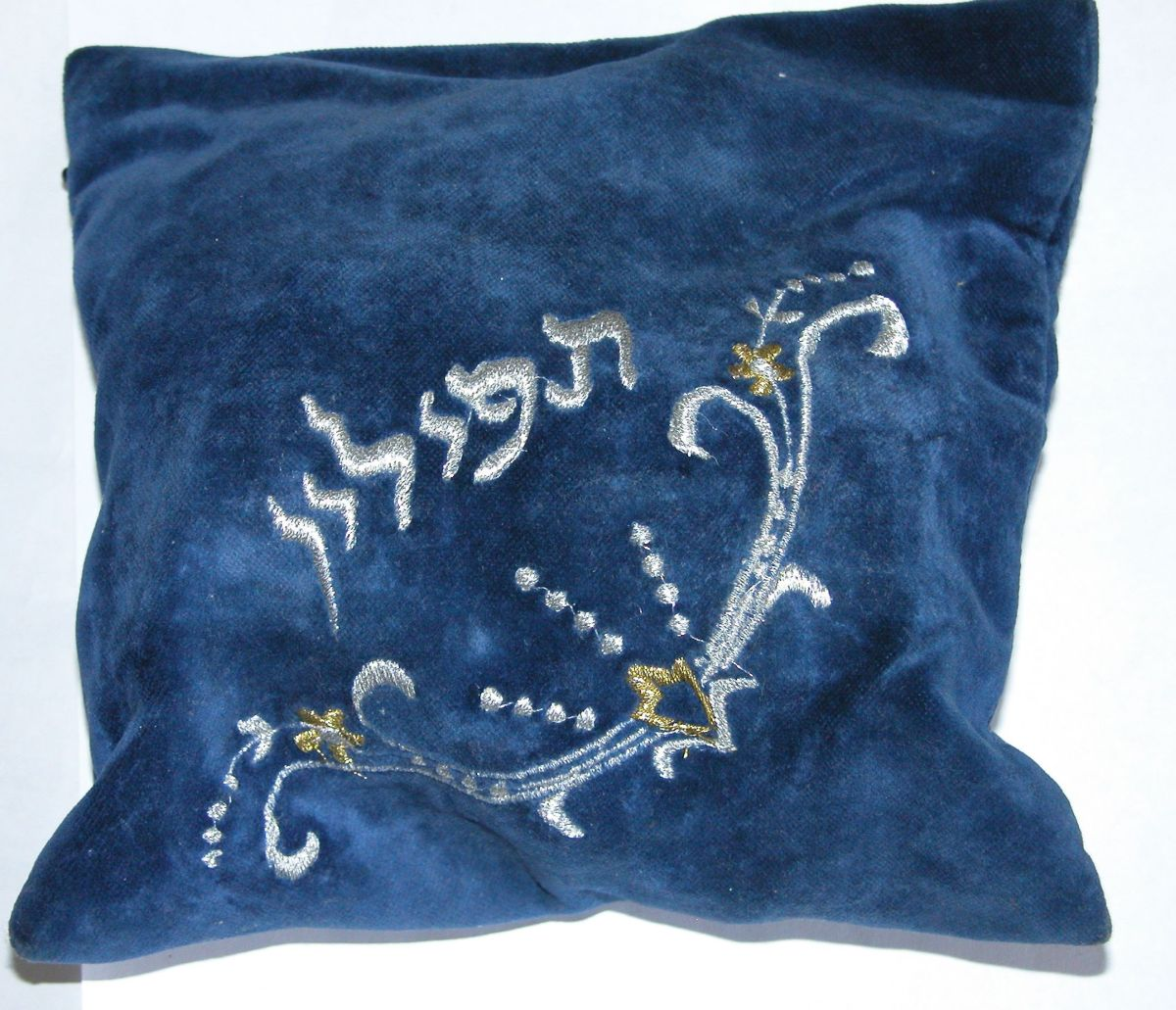 Tefilin's bag